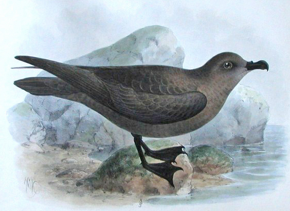 Oi or Grey-faced petrel Pterodroma macroptera. Also known as North island muttonbird, great-winged petrel.